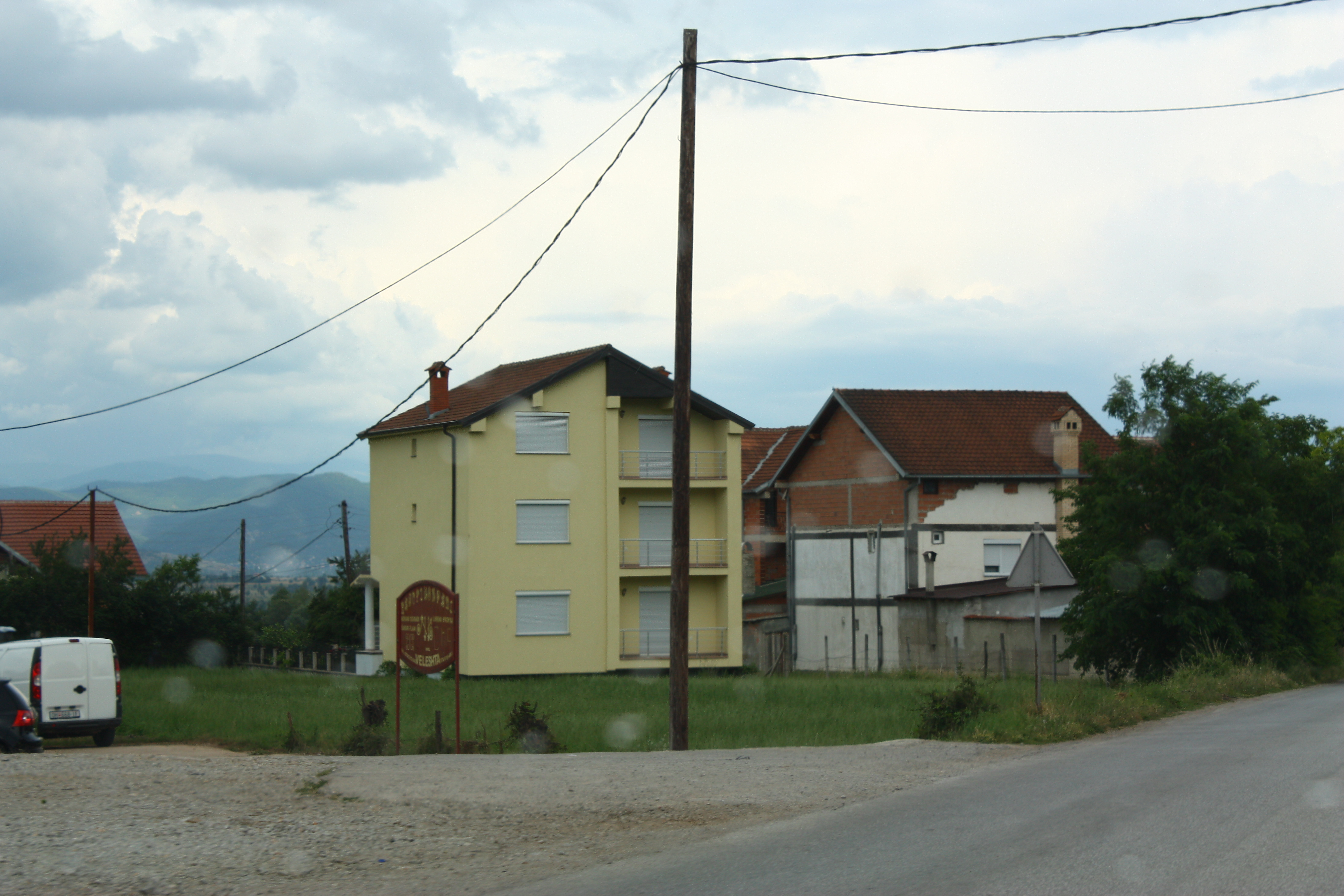 Village Velešta, Macedonia